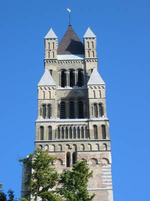 Sint Salvator Cathedral, Bruges, Image:SintSalvatorBrugge.JPG